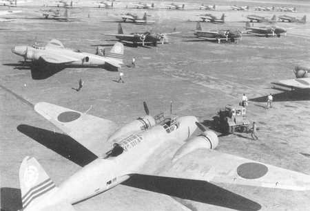 1944 Japanese Ki-21-3 ready for war